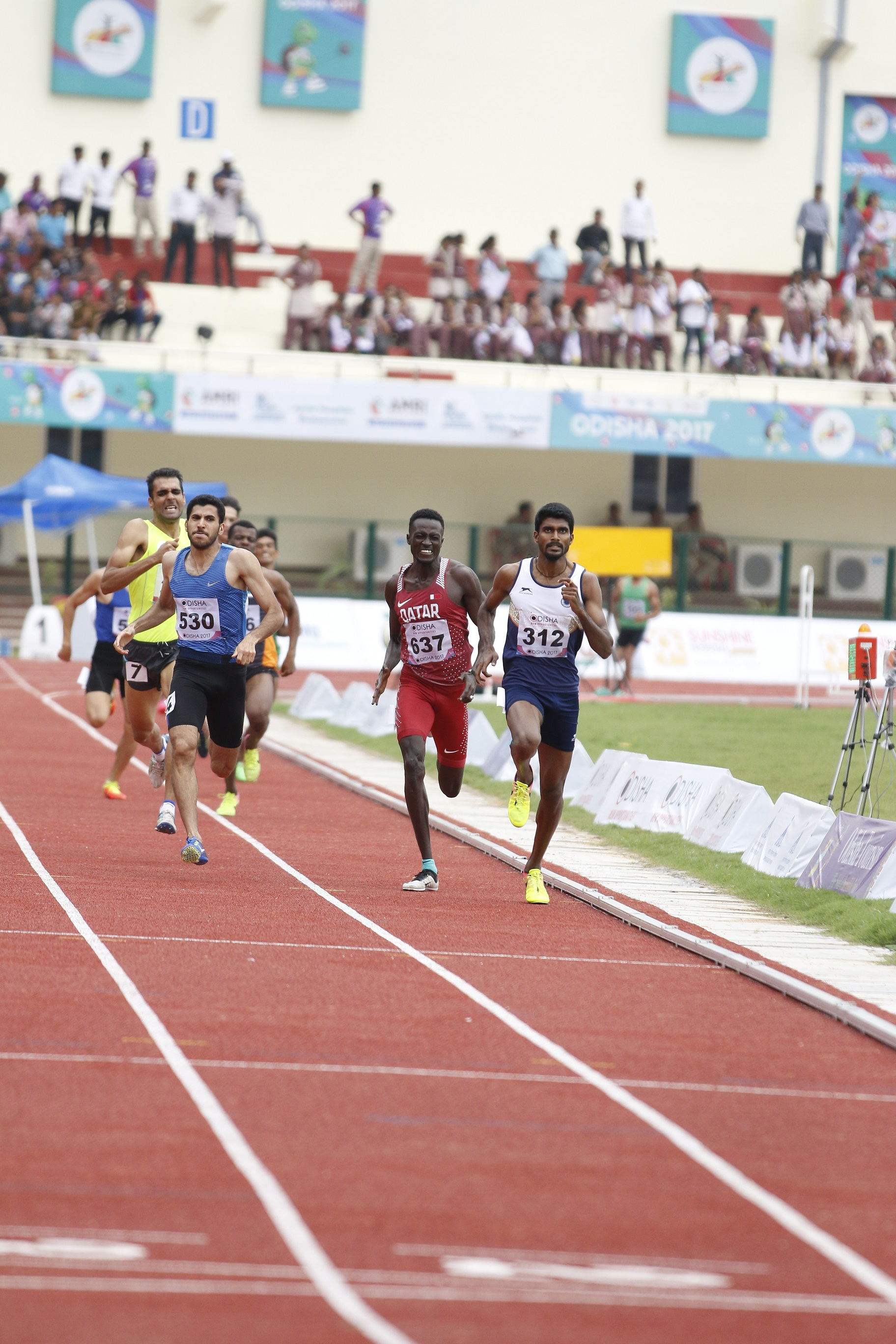 Athletes during 22nd Asian Athletics Championships in Bhubaneswar.